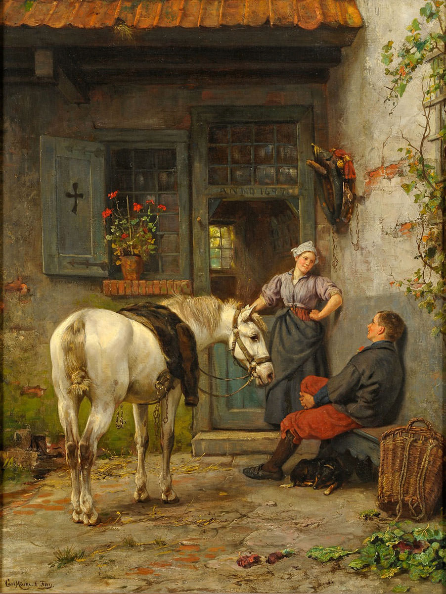 Schmooze at the Farmyard by Carl Emil Mücke and Ludwig Benno Fay, oil on canvas, 72 x 56 cm